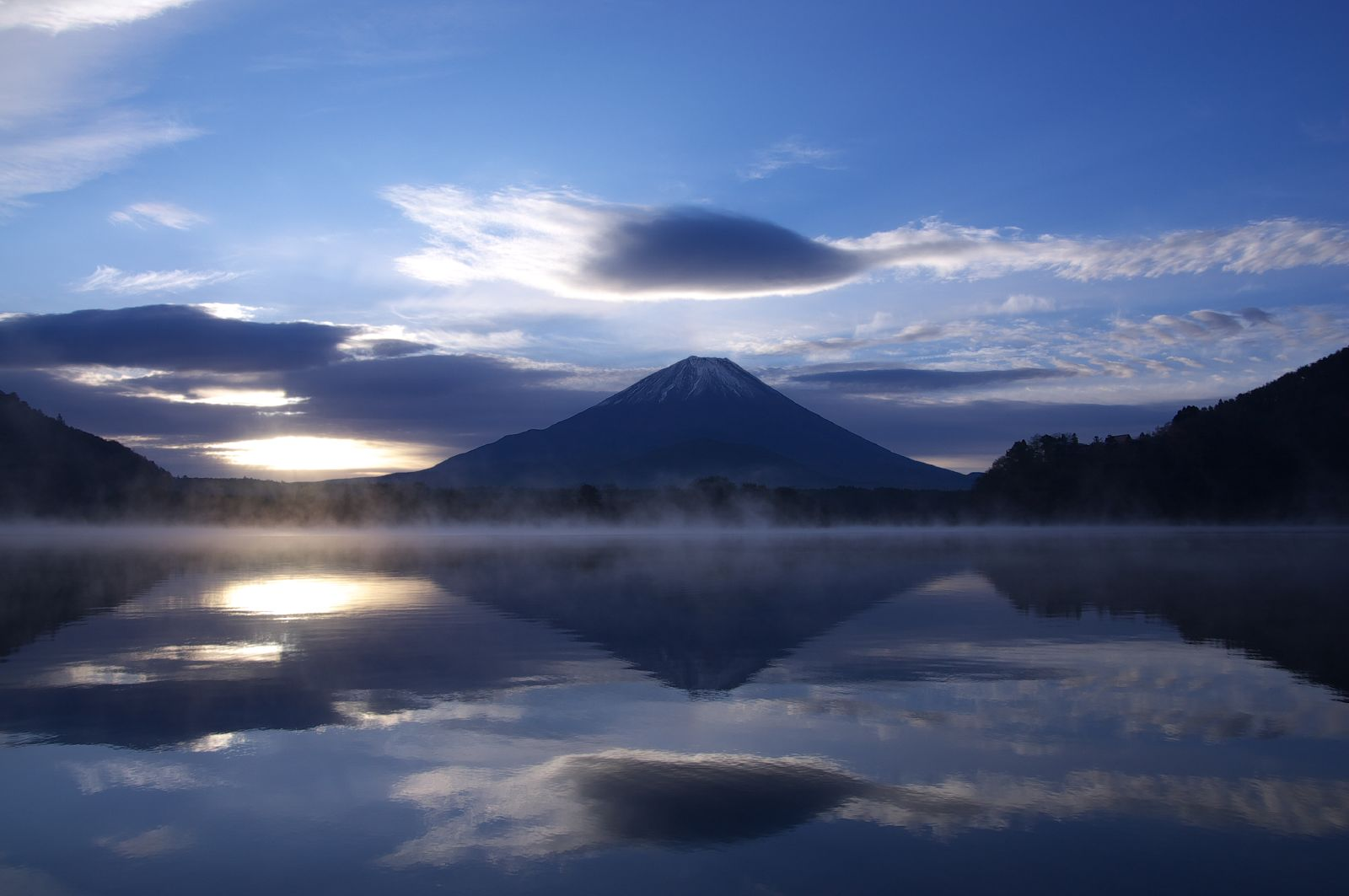 Mt.Fuji and Lake Motosu